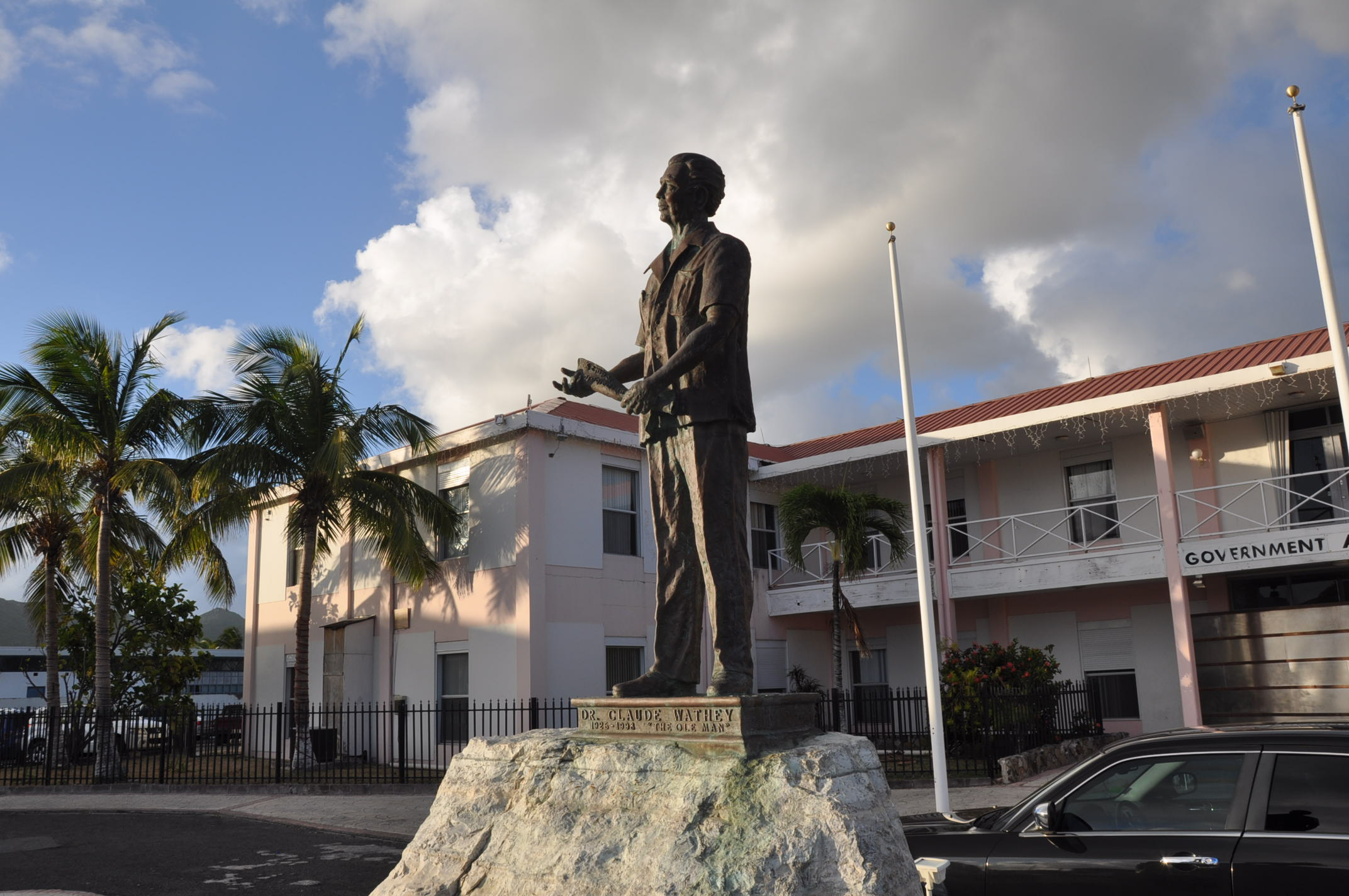 A picture of the statue of Dr. Claude Wathey in front of the government building in Philipsburg, St. Maarten